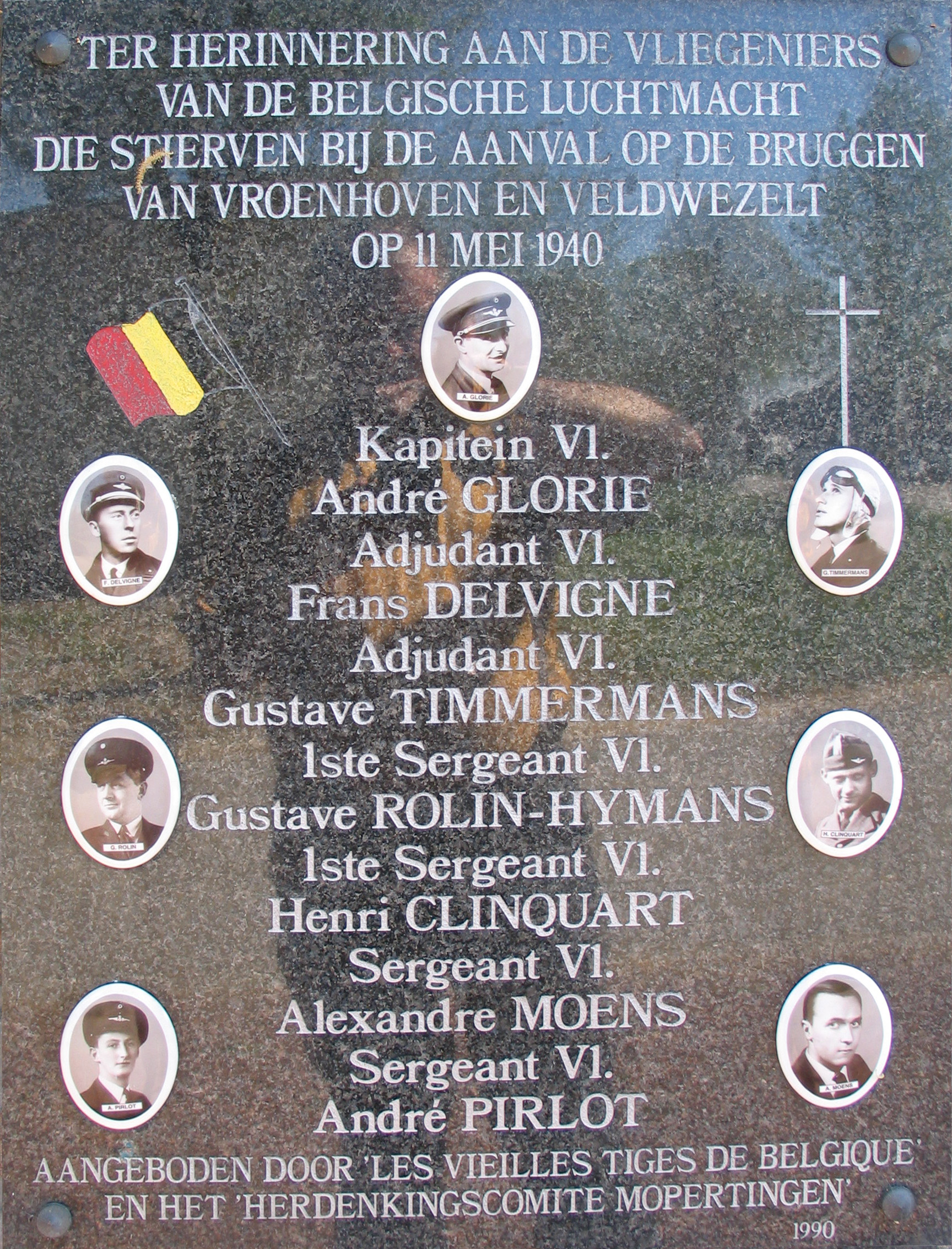 Commemorating the Belgian pilots who died while attacking the bridges of Veldwezelt and Vroenhoven - at the bunker near the bridge of Vroenhoven